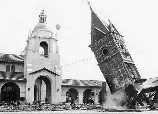 San Diego's original Victorian-style railway depot, built in 1887 for the California Southern Railroad Company, is razed to make way for the opening of the new Santa Fe Depot in 1915.